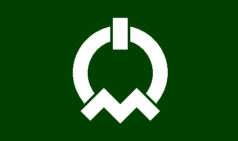 Flag of Tadaoka Osaka